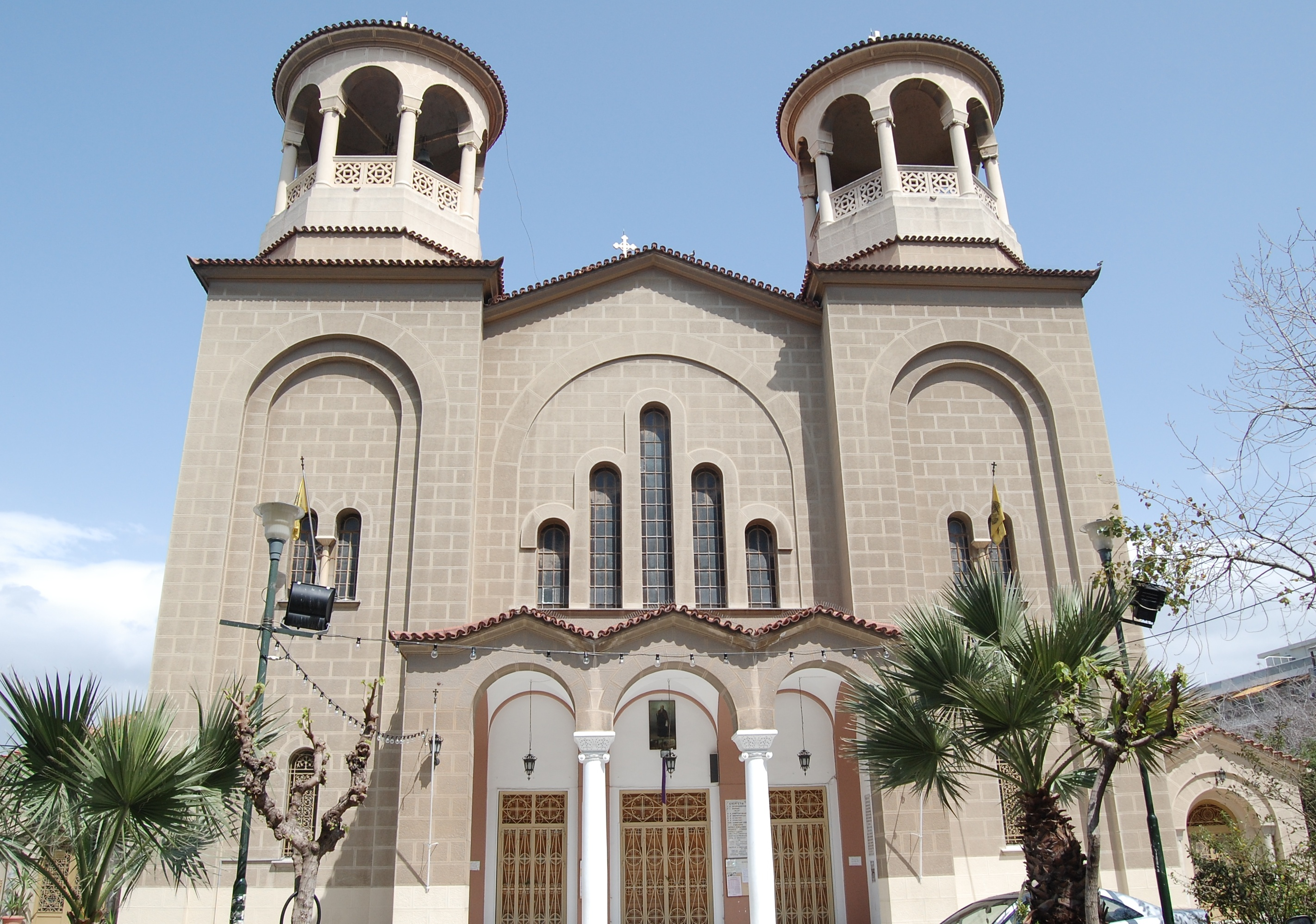 Profitis Ilias, main church in the Pagrati quarter of Athens.